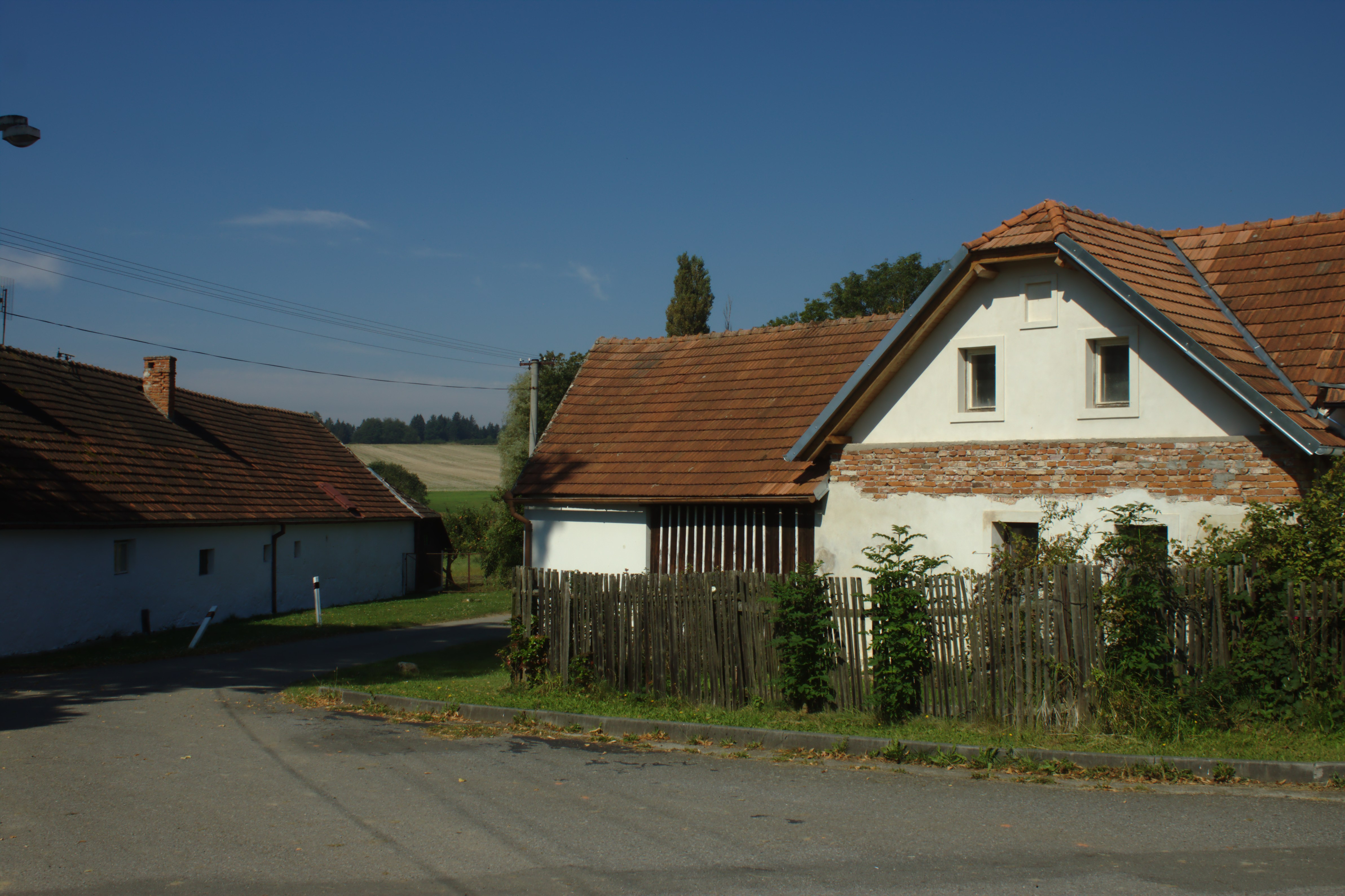 A building next to a common in Mašovice